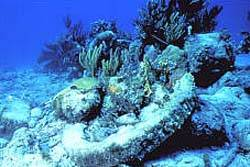 Underwater artefact with sea life